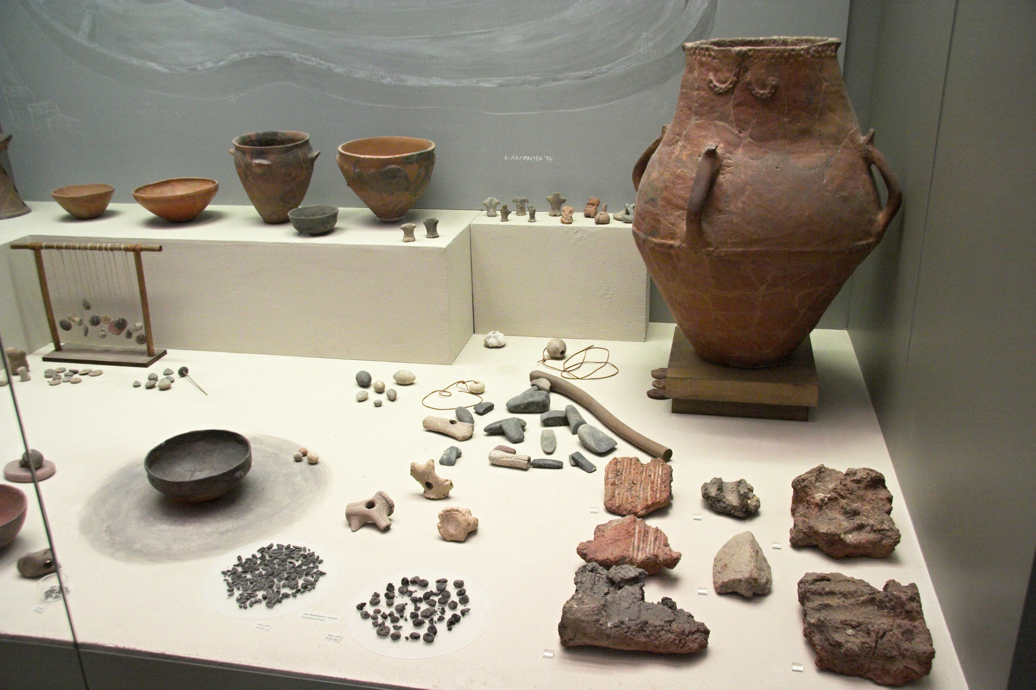 Finds from Sesklo, Neolithic Period, circa 5300 BC. National Archaeological Museum of Athens.